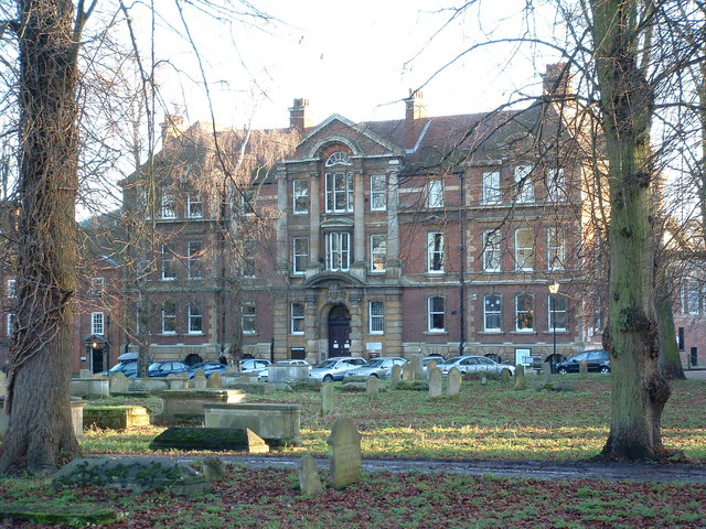 The Old Shire Hall The old shire hall Bury St.Edmunds Suffolk now a small part of the shire hall complex this building is now houses magistrates courts.